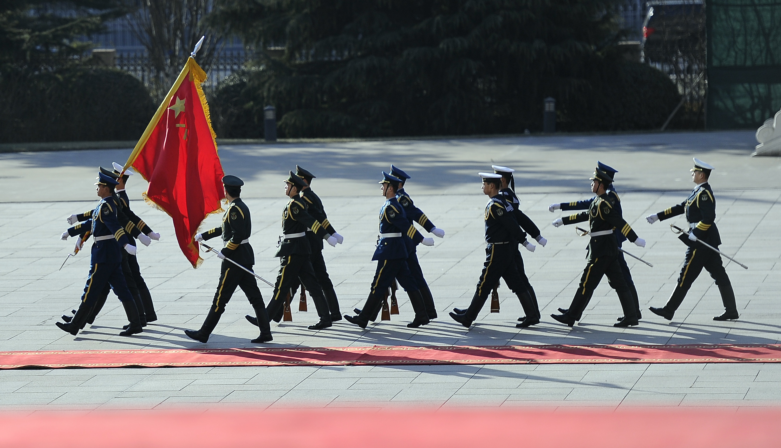 Chinese soldiers of the People's Liberation Army prepare for an honor ceremony for U.S. Defense Secretary Robert M. Gates as he arrives at the Bayi building in Beijing, Jan. 10, 2011. Gates met with Chinese Defense Minister Liang Guanglie and his staff at the ministry and held a press conference there.